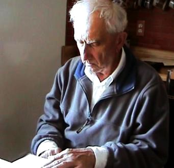 Andrzej - Andrew Urbanczyk (1936- ) writer, sailor, scientist, composer and explorer, at his home in Montara California, USA in April 2007.